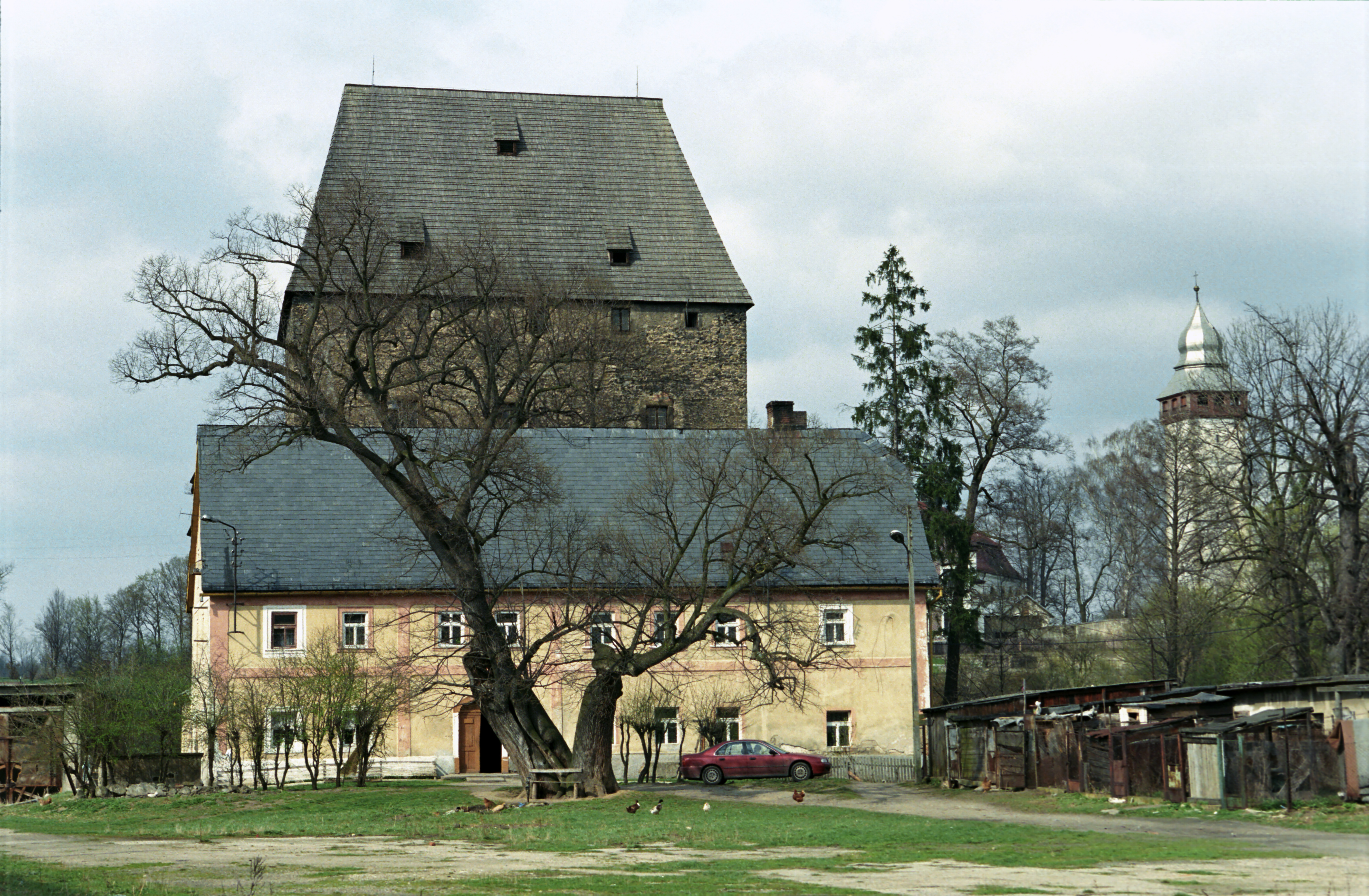 Poland, Siedlecin Castle